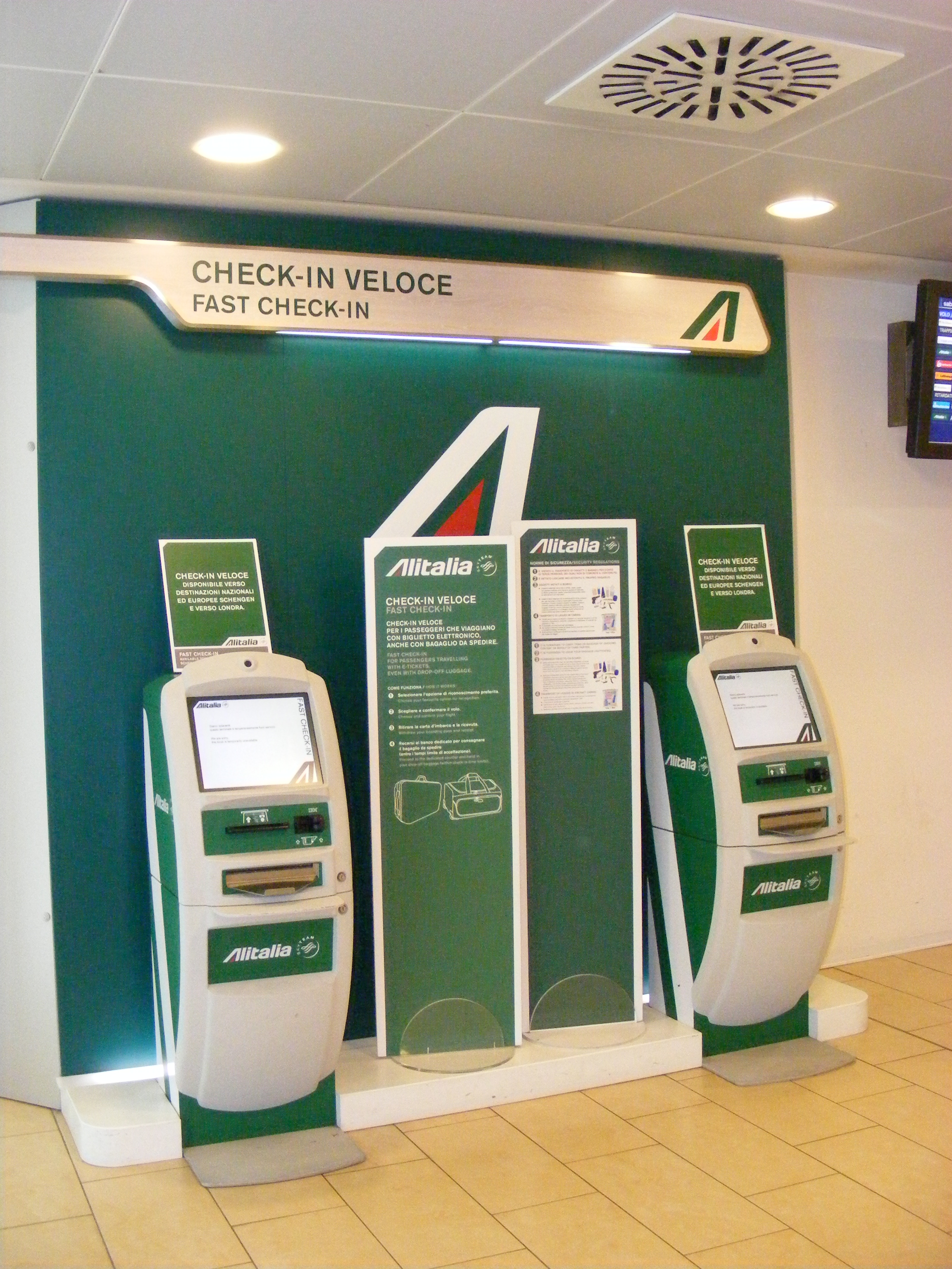 Florence Peretola Airport - Alitalia Fast Check-In ticket machines (1st floor)